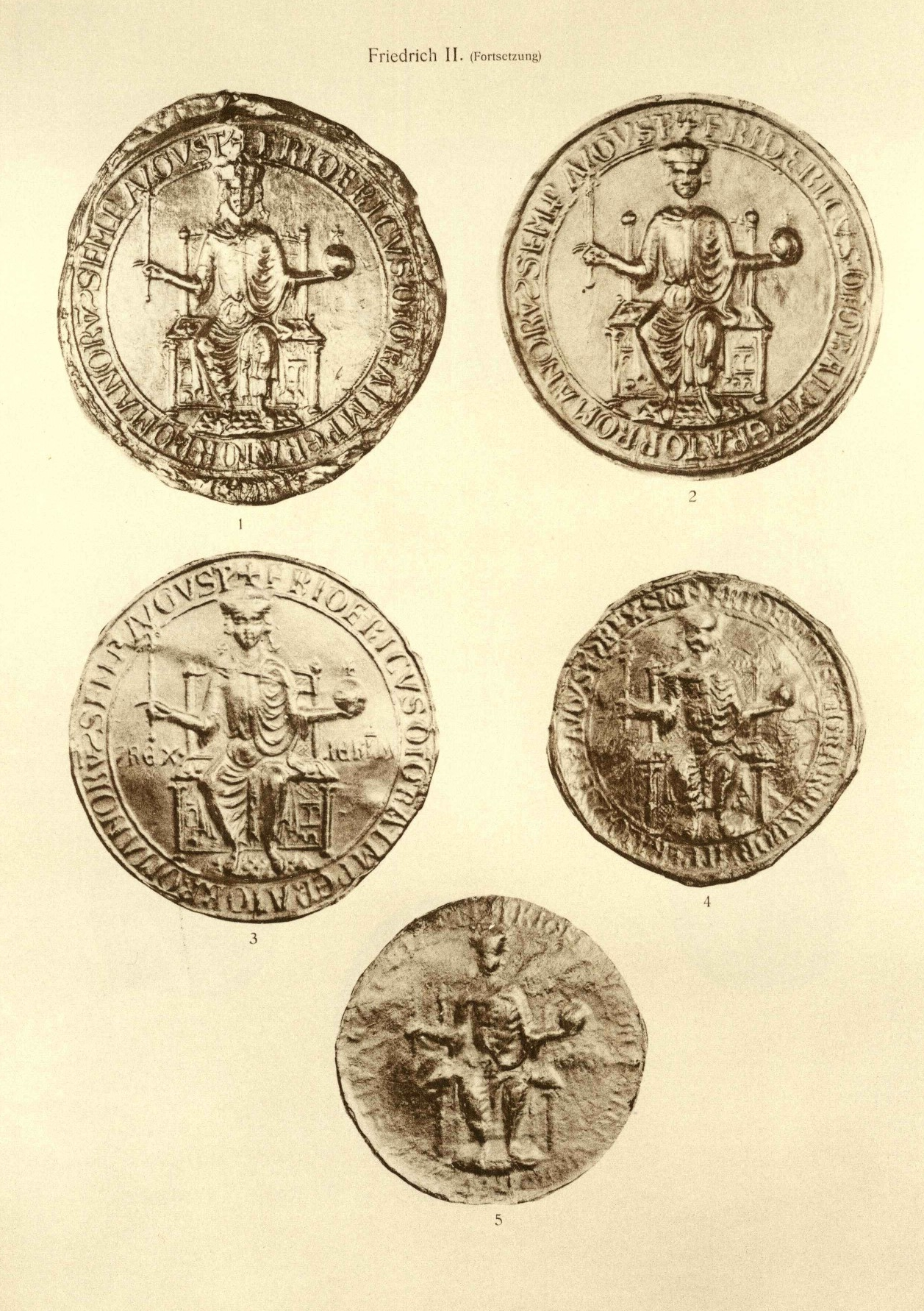 This is a scan of the historical document